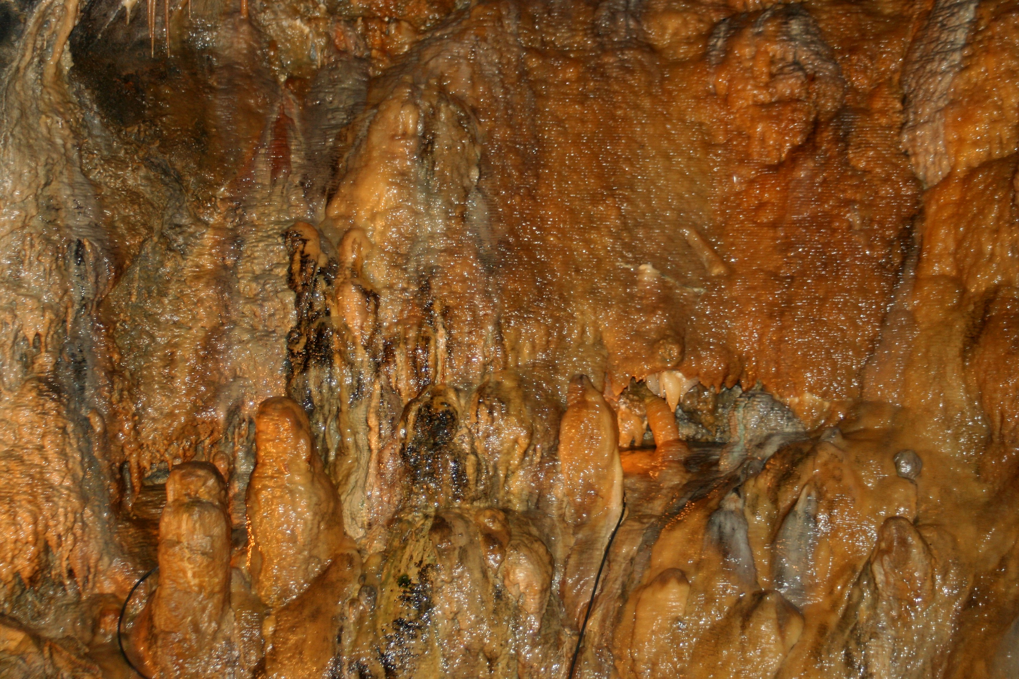 Flowstone in Treak Cliff Cavern.